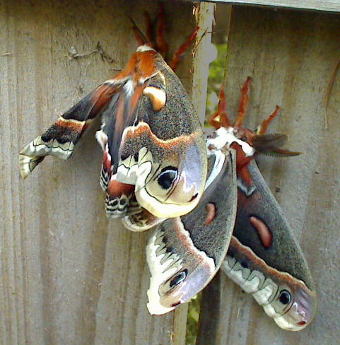 Two cecropia moths (Hyalophora cecropia) mating (female on top) on a stockade fence.